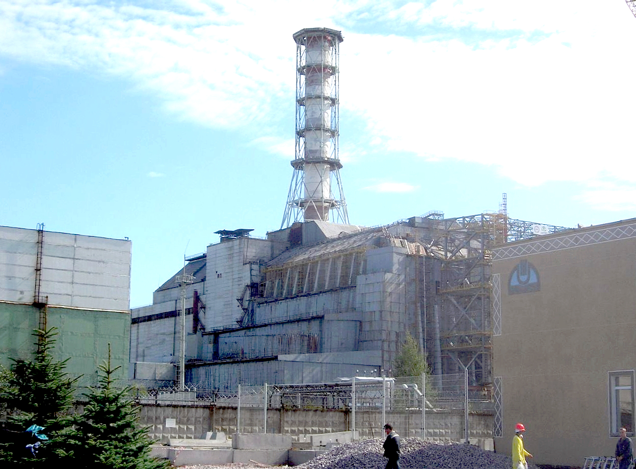 The Chernobyl reactor #4 building as of 2006, including the later-built sarcophagus and elements of the maximum-security perimeter.reactor 4